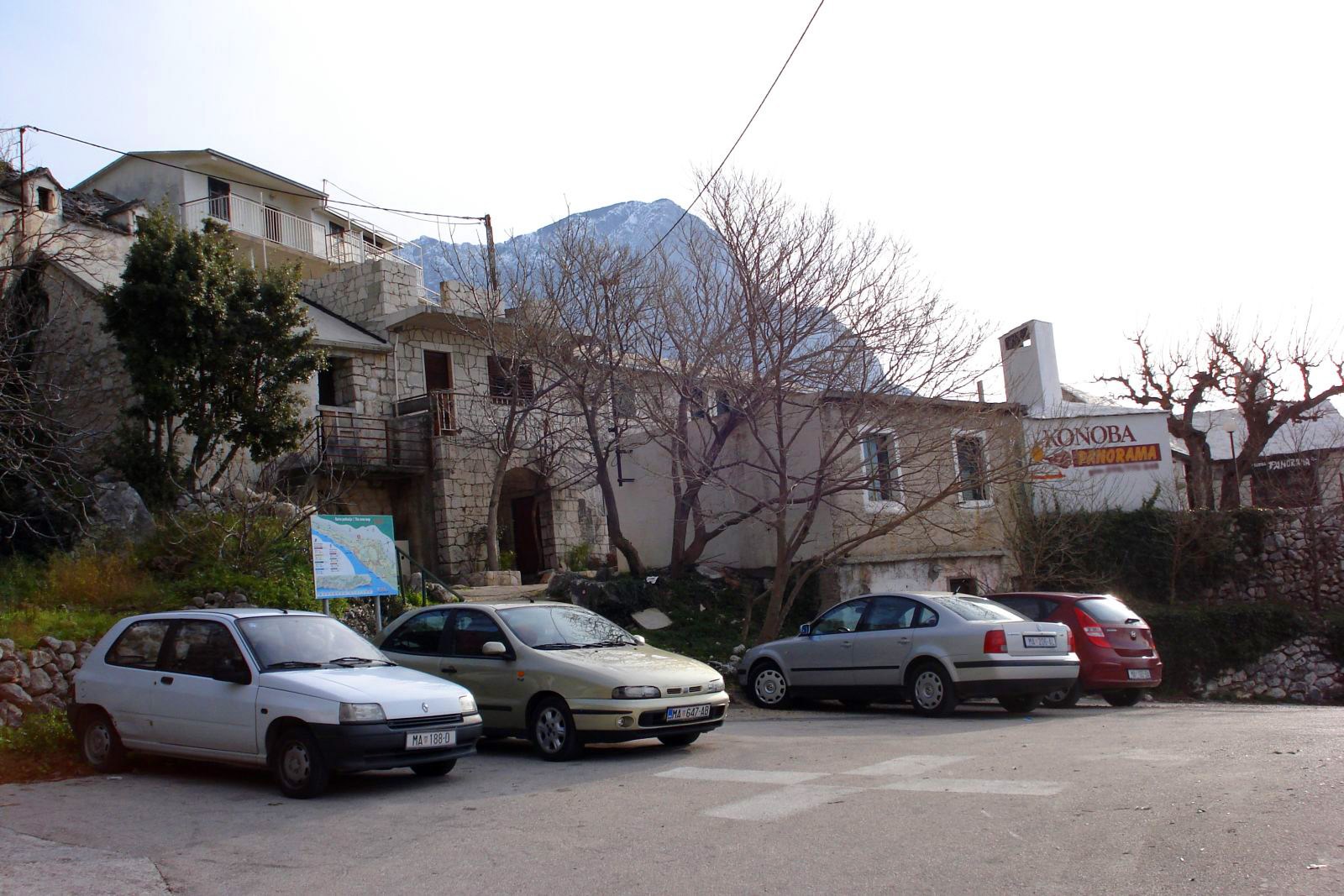 Topići, near Baška Voda.